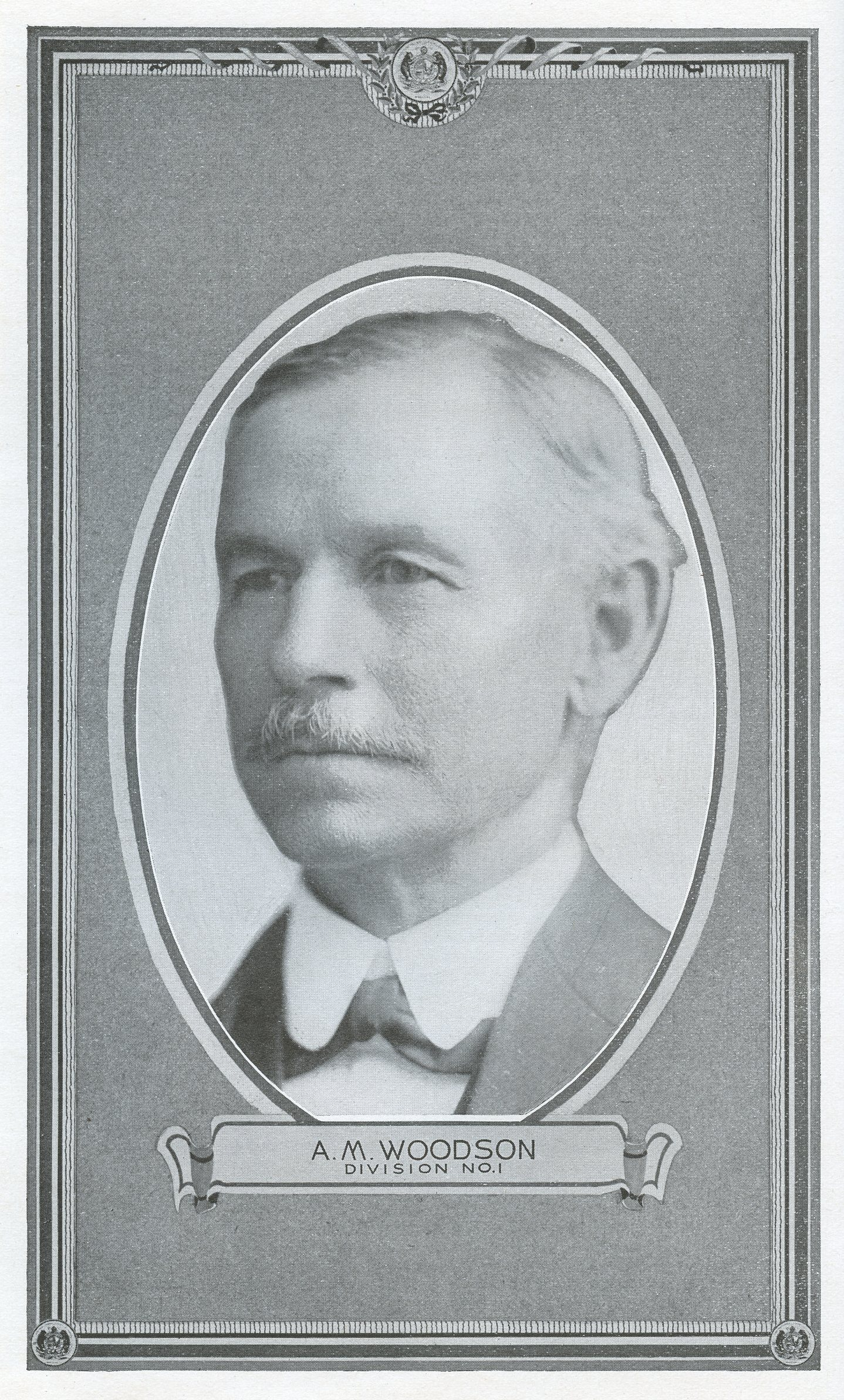 Justice, Missouri Supreme Court. From the Missouri Official Manual 1917